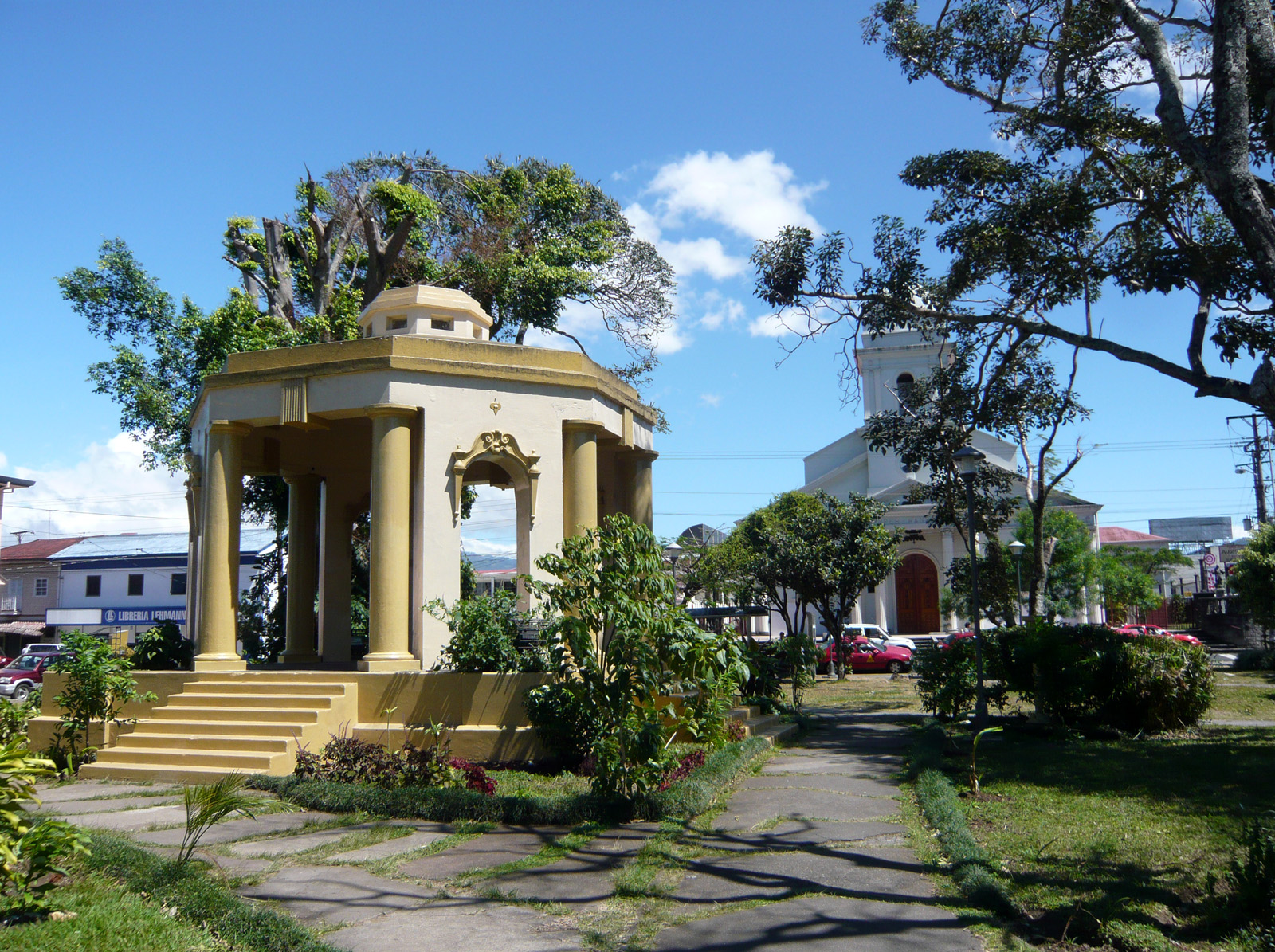 Parque John F. Kennedy with pavilion — in San Pedro district of Montes de Oca Canton. In Metro San José,, Costa Rica.